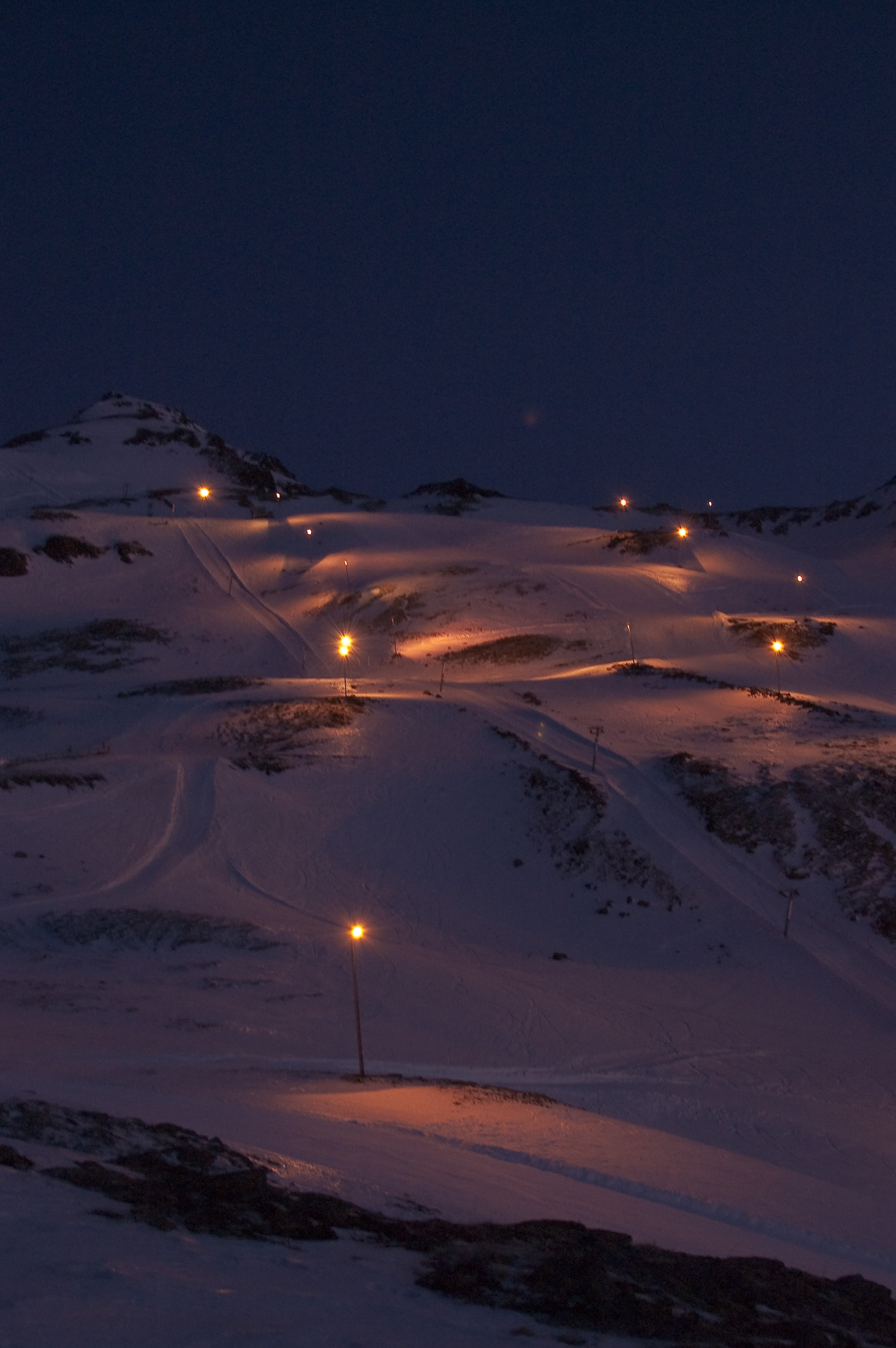 Ski resort Oddsskarð, East-Iceland